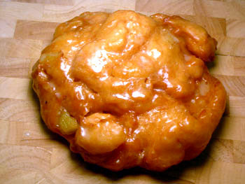 An apple fritter.